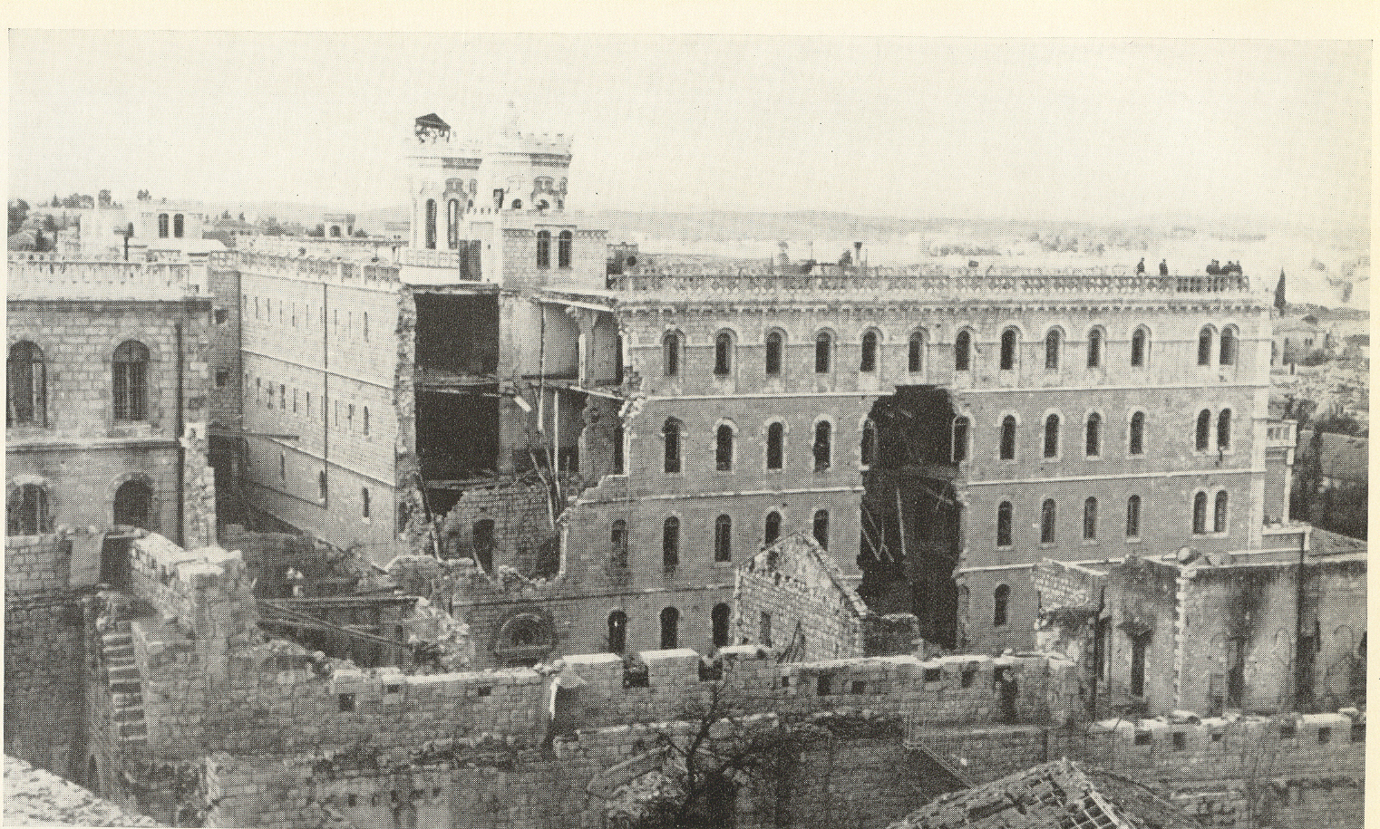 Notra Dame, formerly "Notre Dame de France", view from Old City, 1948.